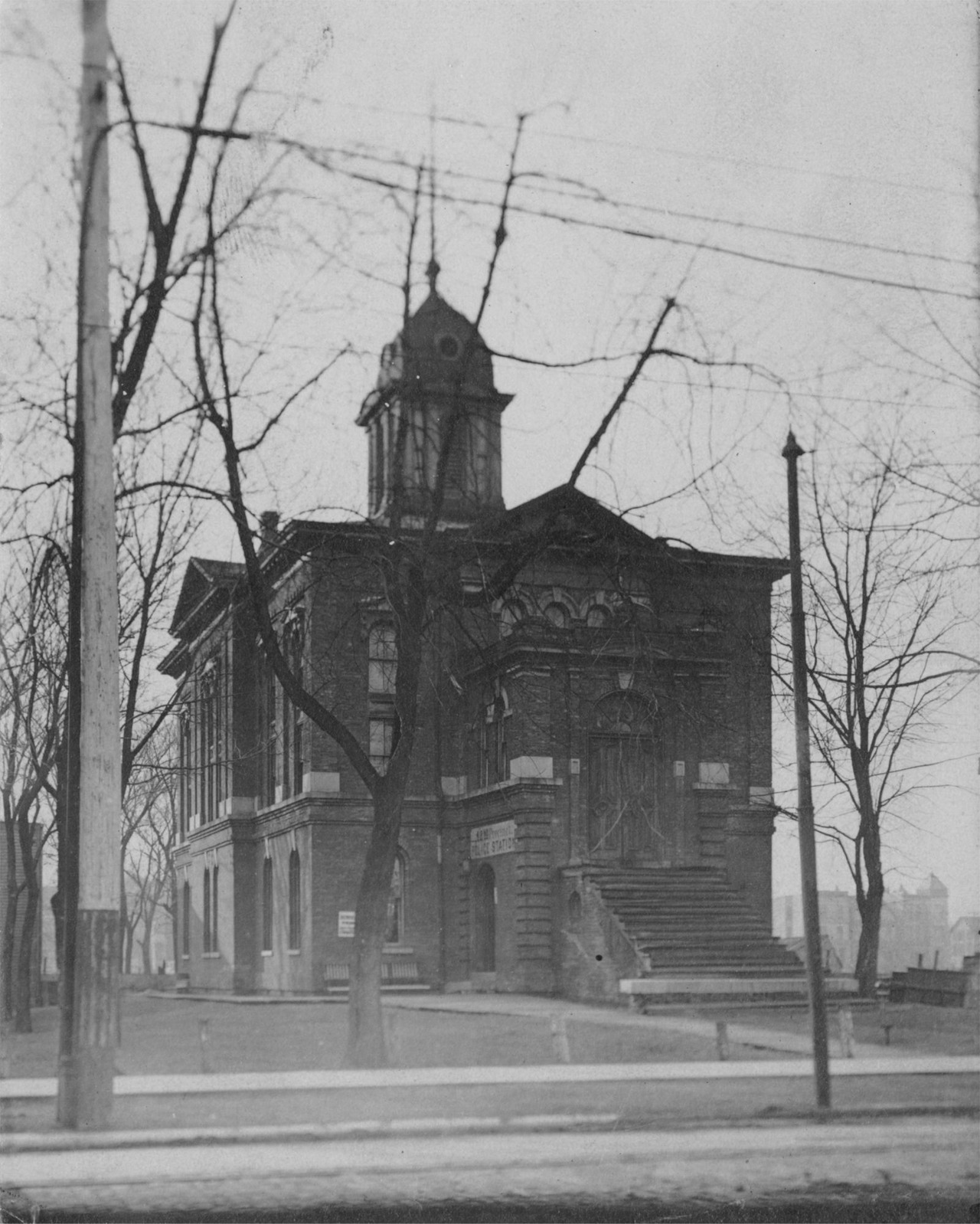 Lakeview Town Hall before tear down